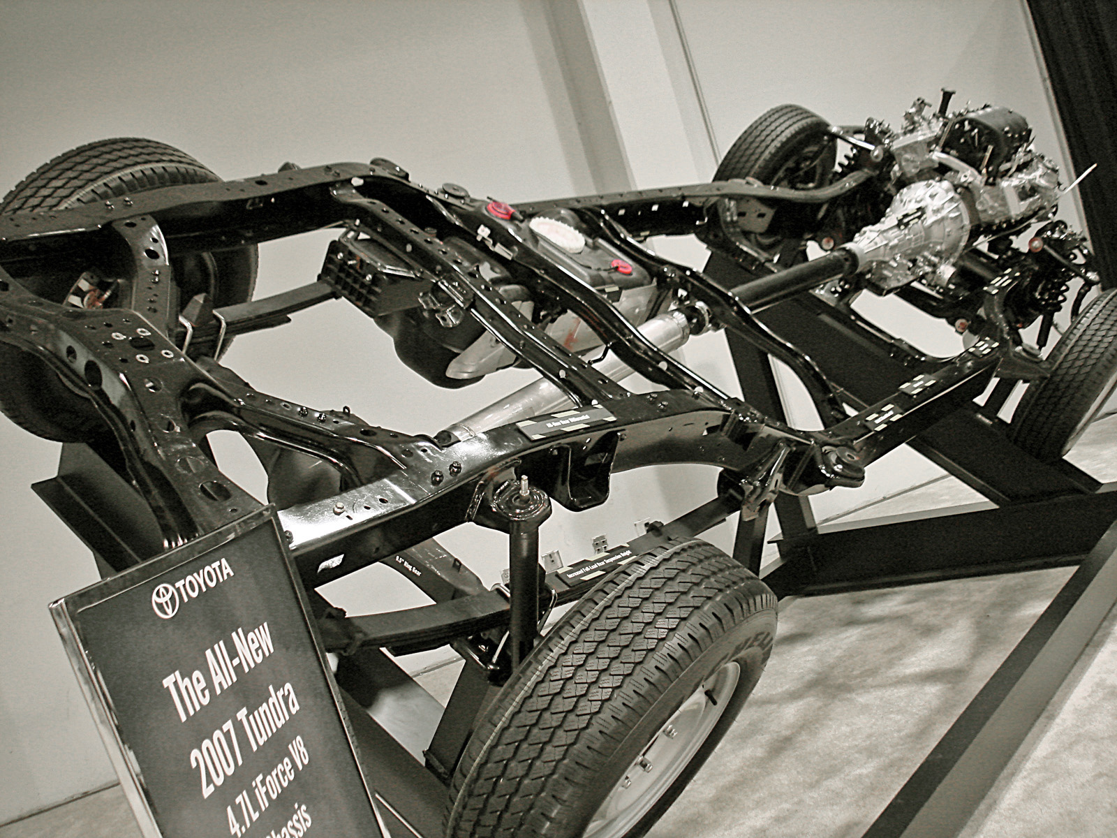 2007 Toyota Tundra chassis on the 2006 OC Auto Show